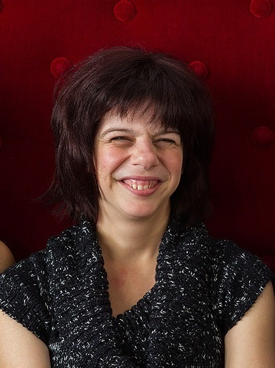 17 October 2013, Gabrielle Marion-Rivard